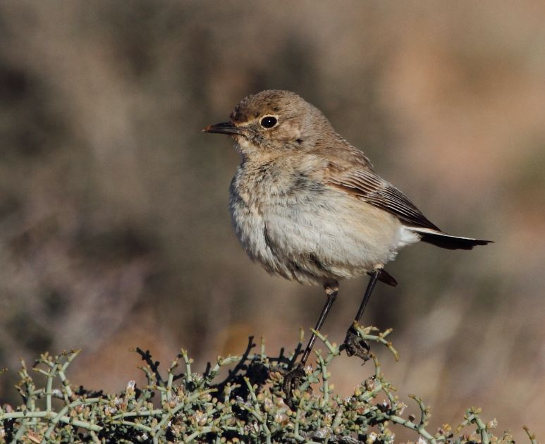 A Tractrac Chat in Bushmanland, South Africa.